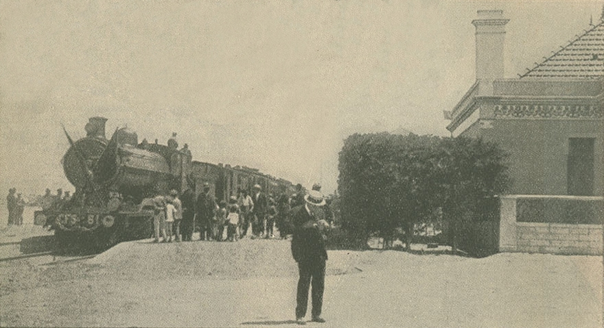 Inauguration of the rail line between Barreiro and Seixal, in the South margin of the Tagus River, in Portugal, on the 29th July 1923. This image was published on the Ilustração Portuguesa magazine No. 911 (II Series), of the 4th July 1923, and scanned by the Hemeroteca Municipal de Lisboa.